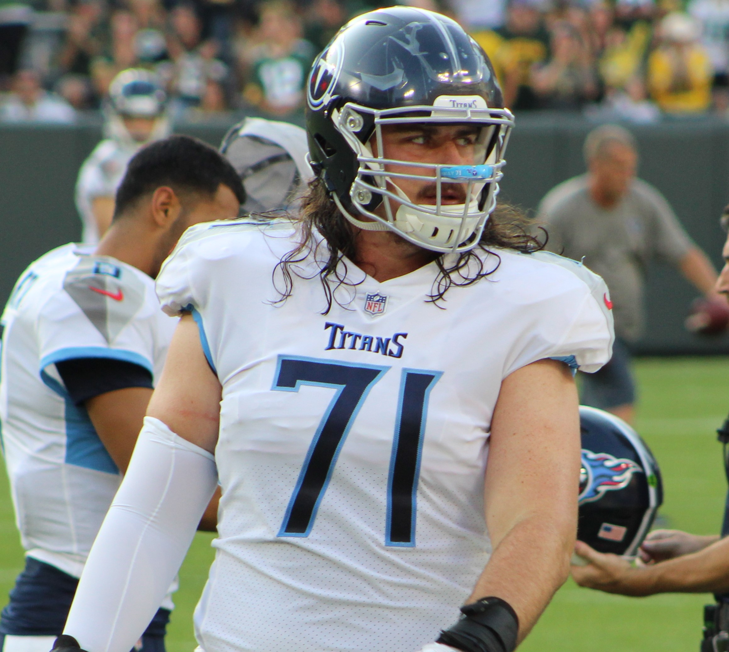 Dennis Kelly, Tennessee Titans at Green Bay Packers (Preseason), August 9, 2018